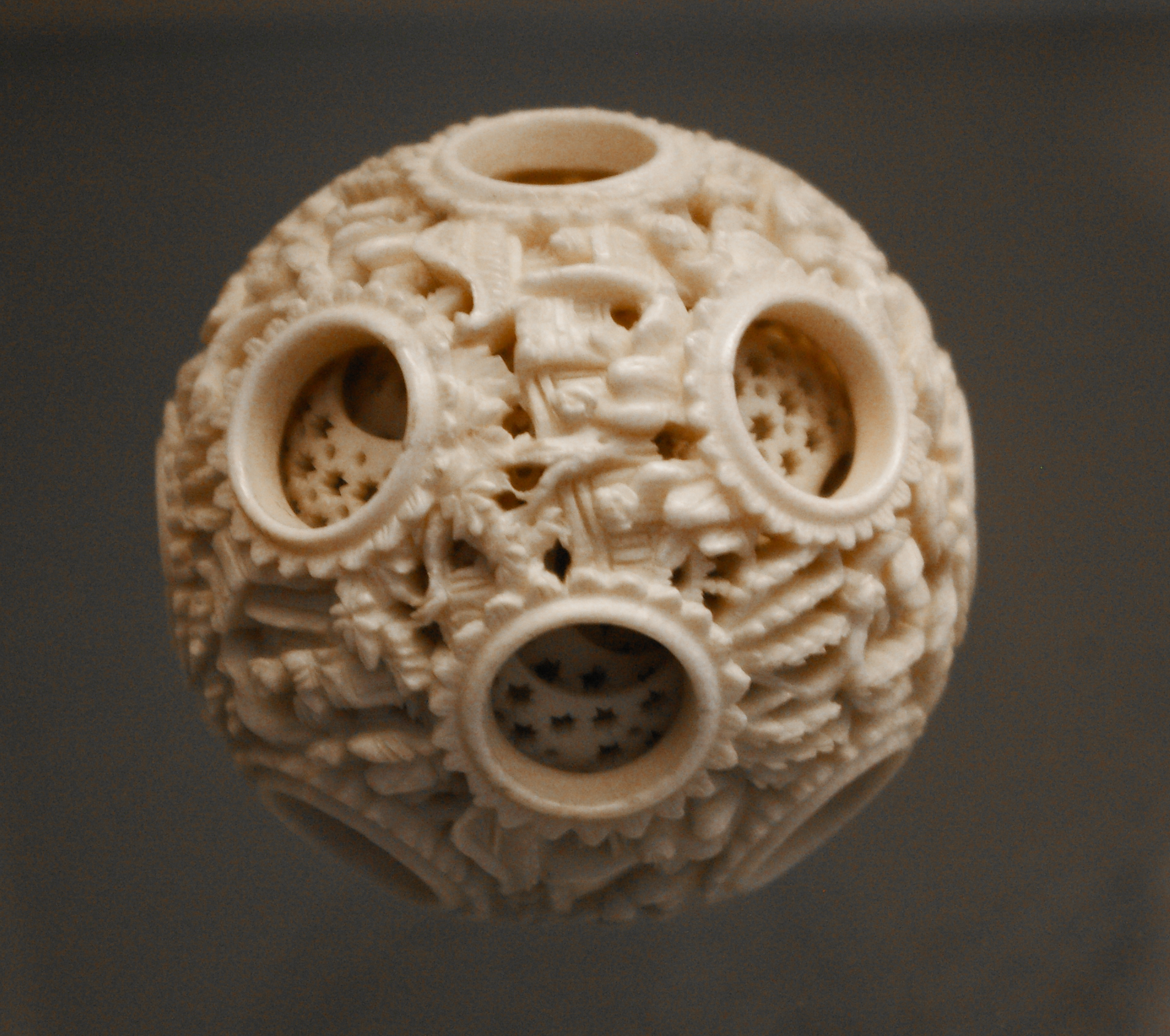 Twelve concentric balls nestled inside each other